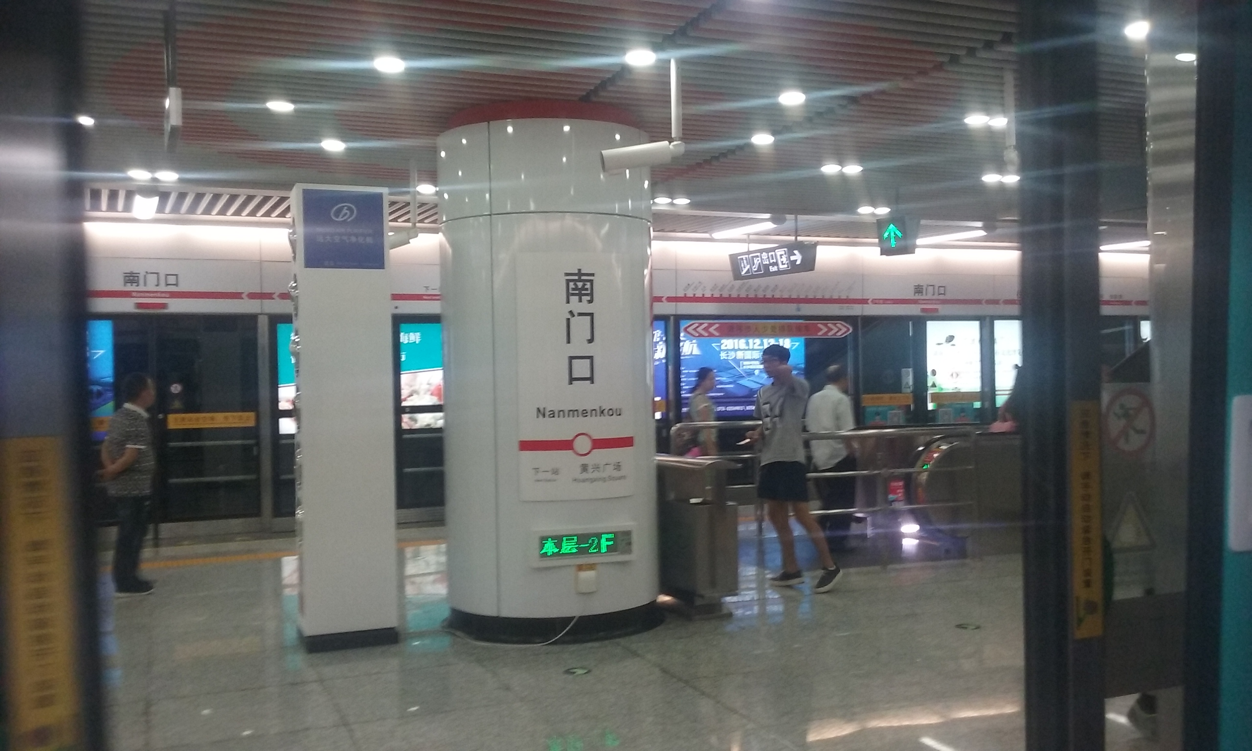 Platform of Nanmenkou Station